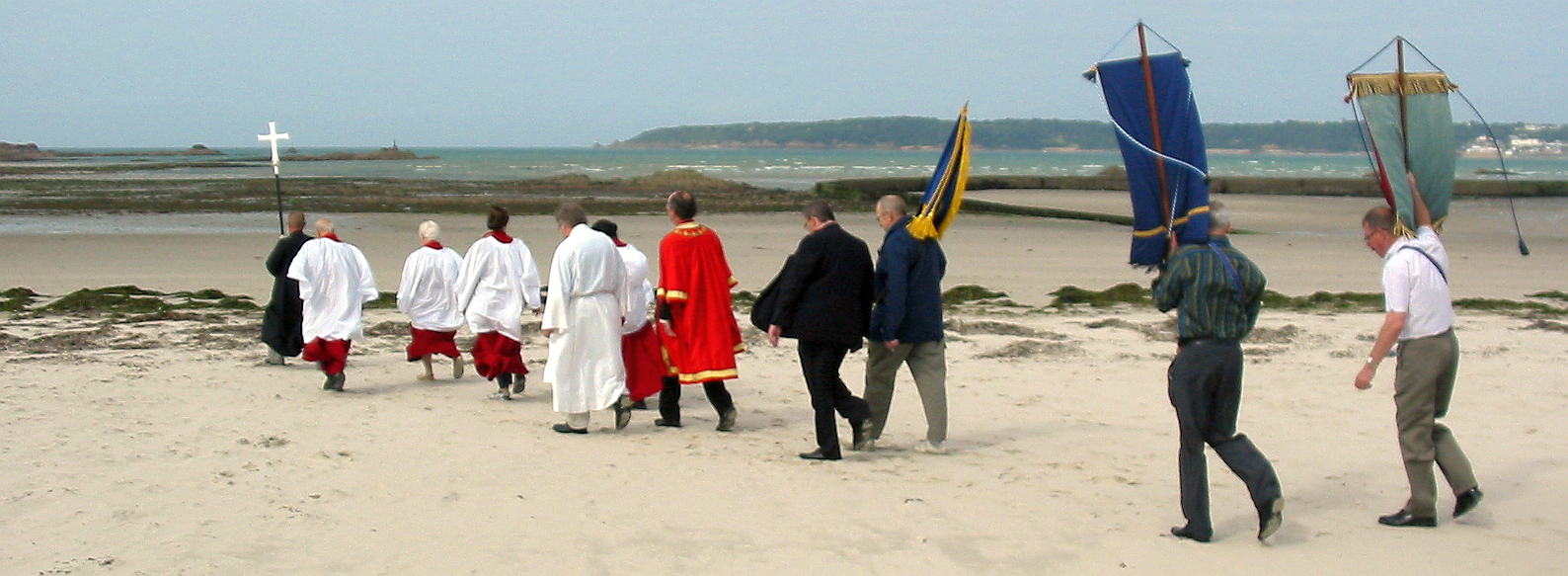 Saint Helier pilgrimage, Saint Helier, Jersey, 19 July 2009